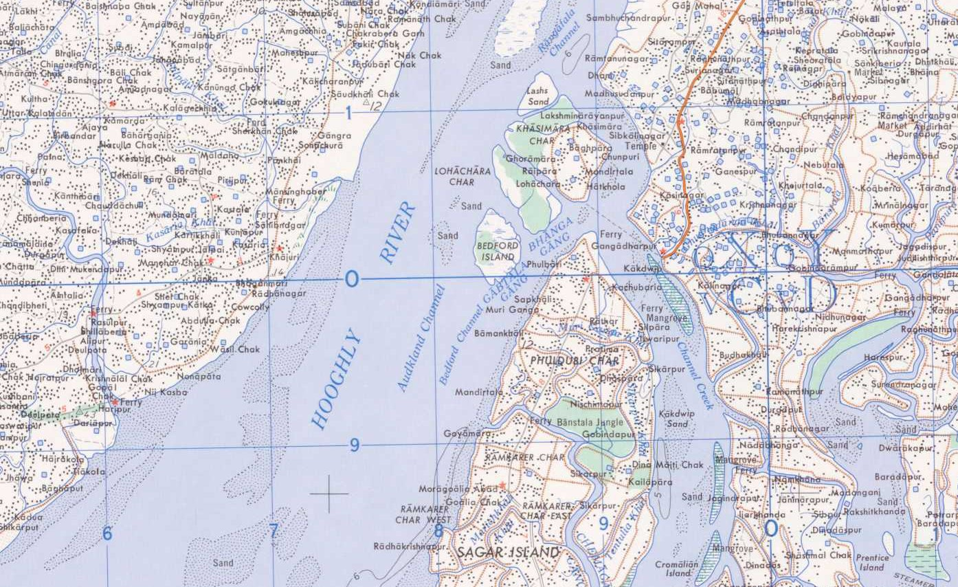 Hooghly River in India, 50% quality copy map by U.S. Army Map Service. Compiled in 1954.